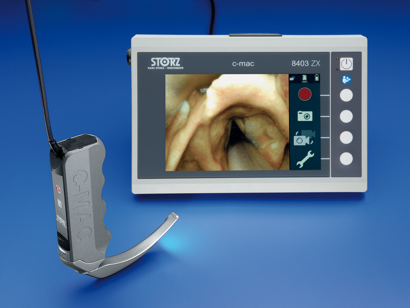 The latest generation of Video Laryngoscopes have been equipped with a CMOS Chip, LED and Li-Ion battery, making the whole system more mobile and portable enabling it to be used more flexibly.